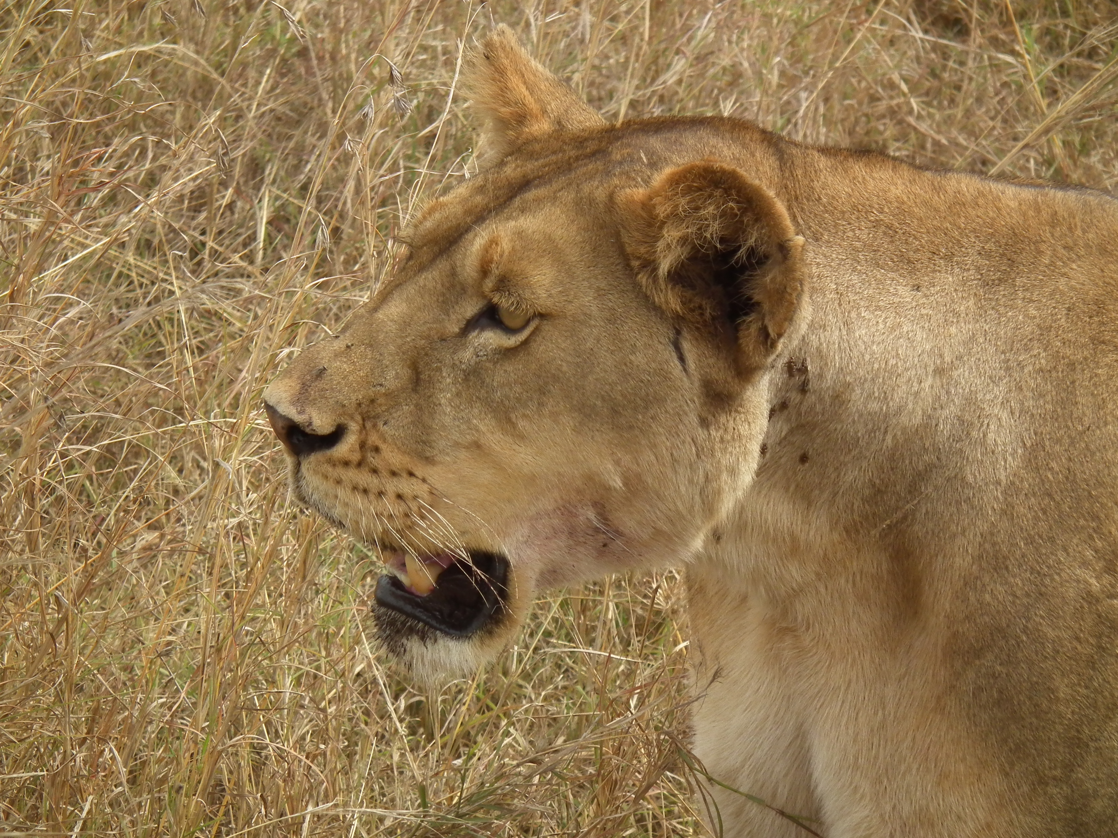 Lion Panthera leo, picture taken in Tanzania